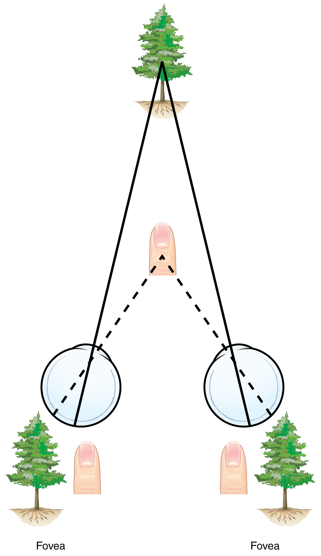 Illustration from Anatomy & Physiology, Connexions Web site. Jun 19, 2013.